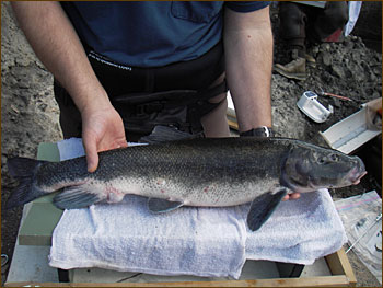 Deltistes luxatus USGS photo